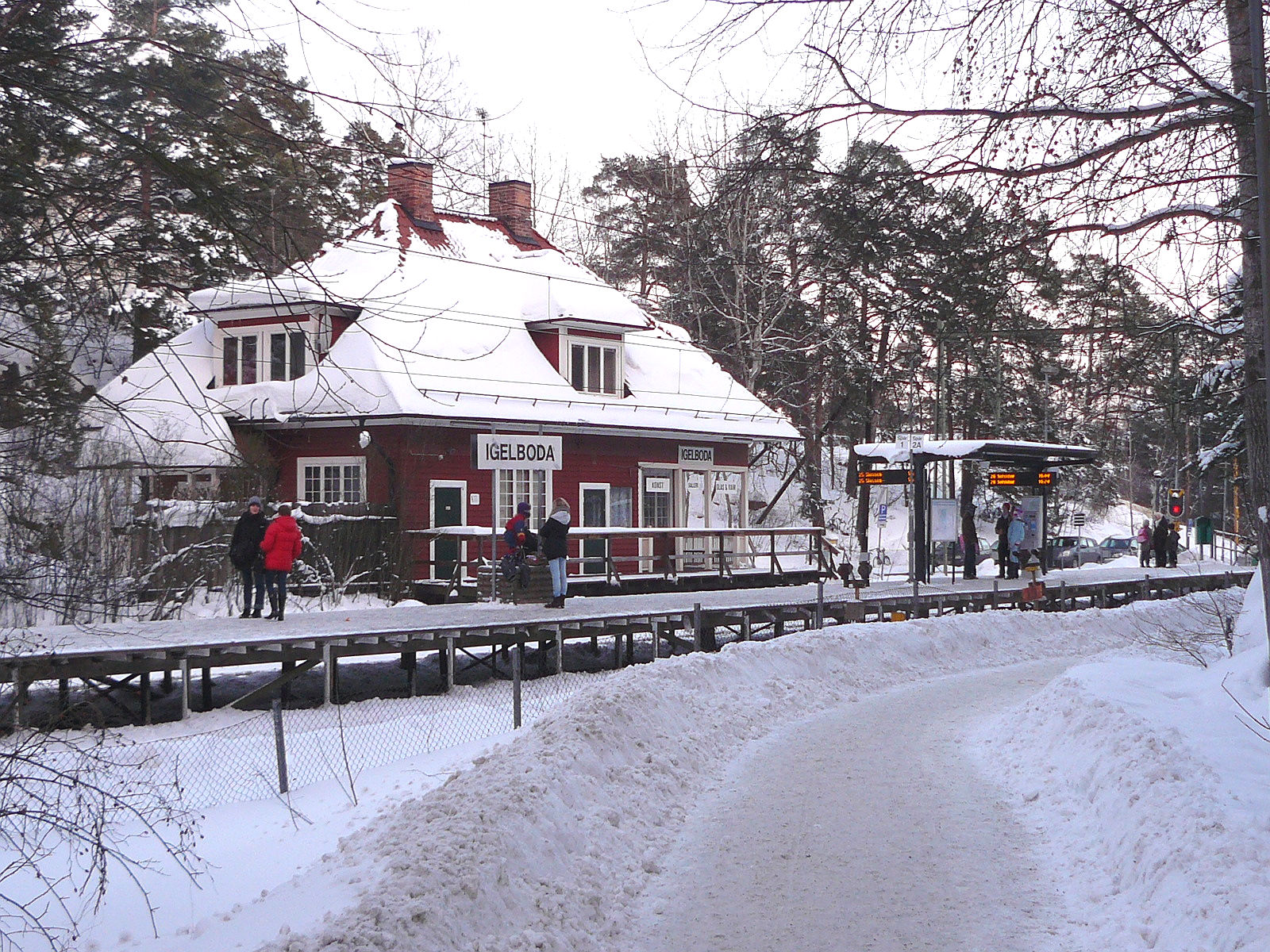 Igelboda railway station, Saltsjöbanan, Sweden.